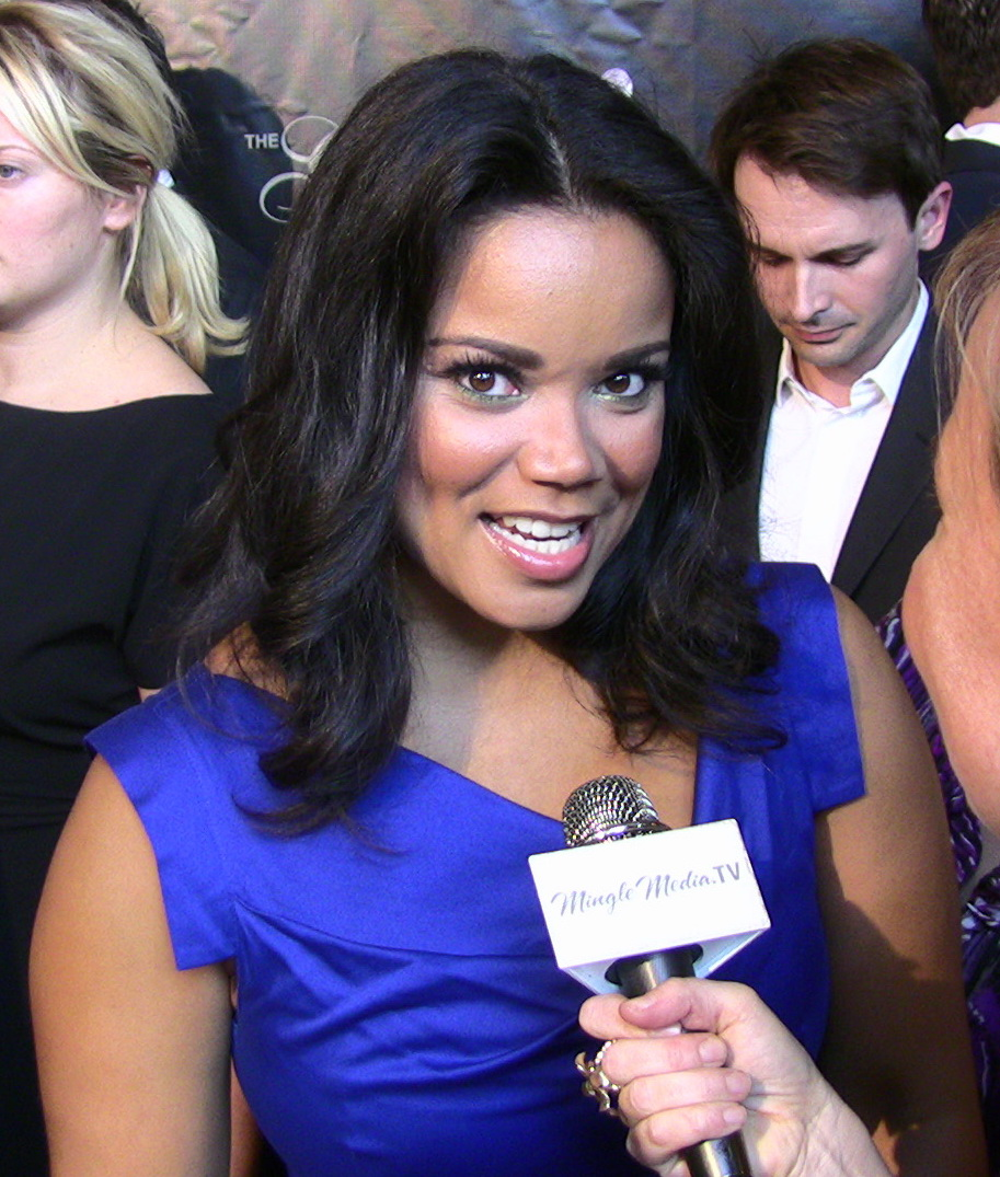 Kimberley Locke at the 36th Annual Gracie Awards Gala